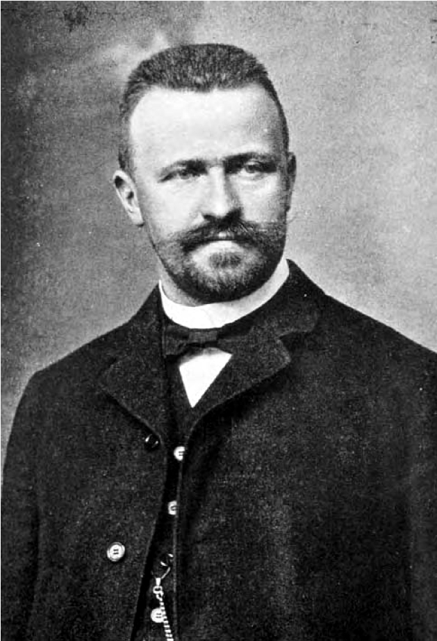 Erich Dagobert von Drygalski (1865–1949), german polar explorer